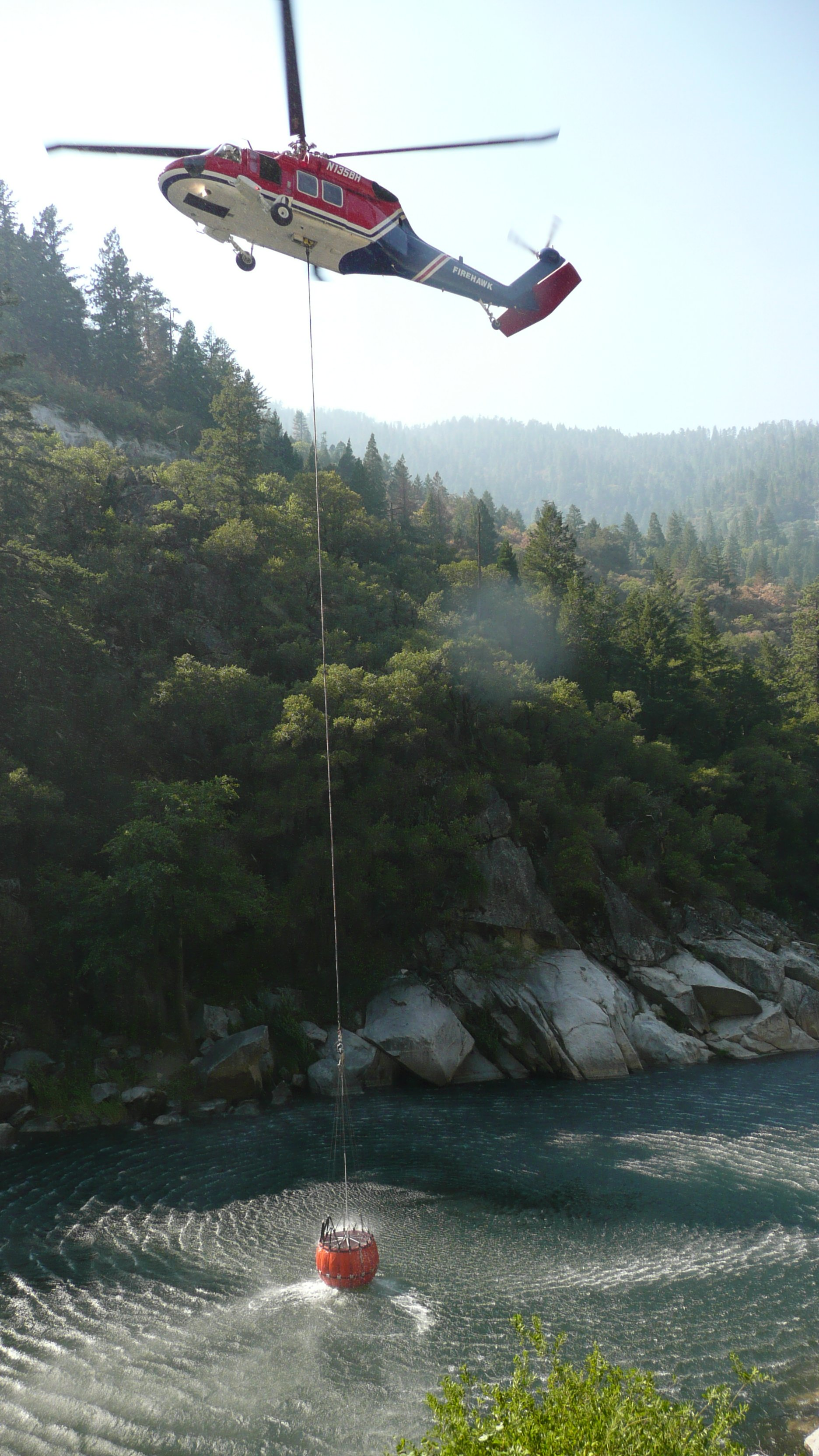 A helicopter picking up a load of water from a river during firefighting operations.